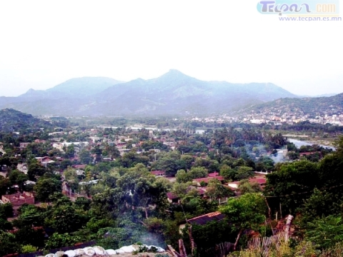 Tecpan of Galeana, panoramic view